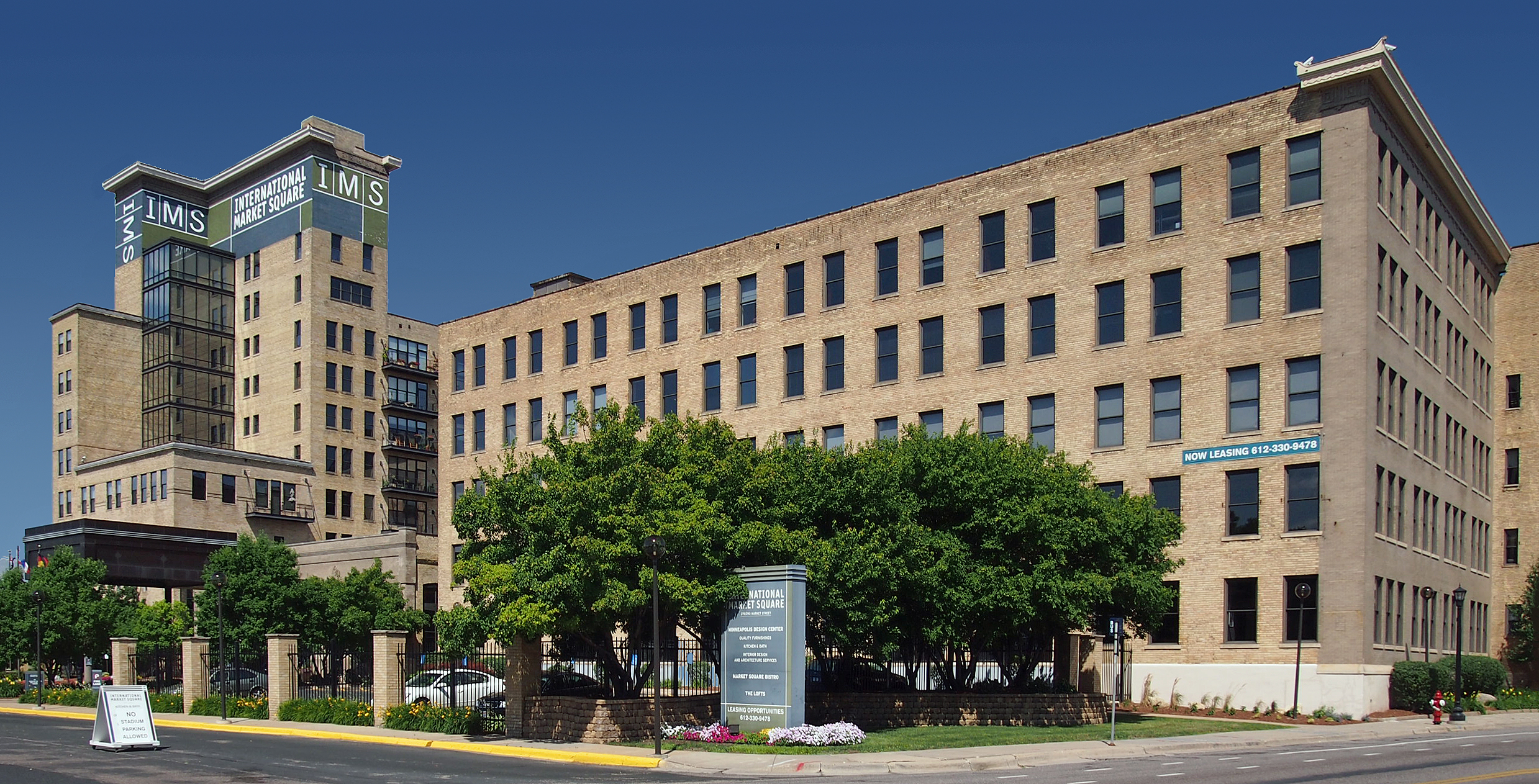 Northwestern Knitting Company Factory, 718 Glenwood Ave., Minneapolis, Minnesota, USA. Now an office/retail space called International Market Square. Viewed from the southwest, corrected for tilt distortion.